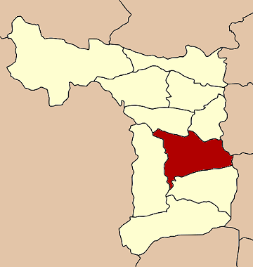 Map of Suphanburi province, Thailand, highlighting Amphoe Mueang Suphanburi